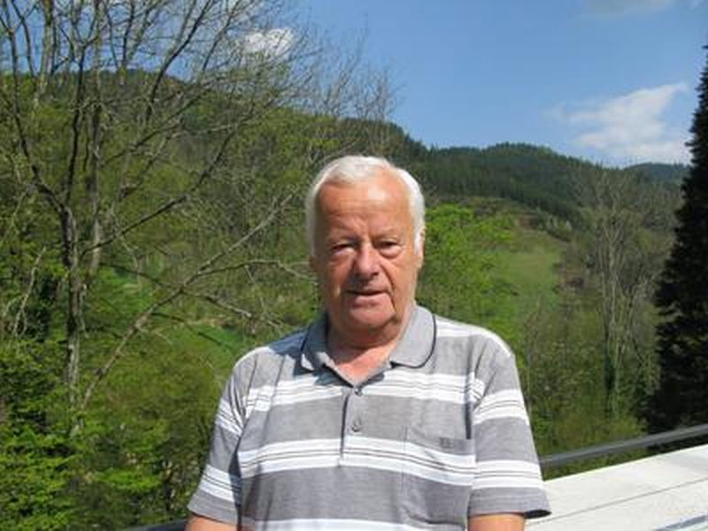 Ernst Kunz, Oberwolfach 2009